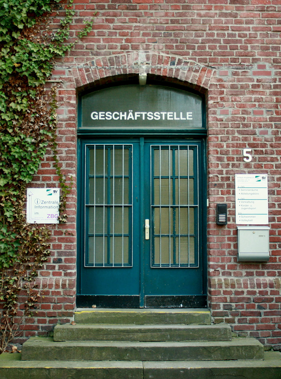 Bayer-Sportpark, Unten vorm Steg in Wuppertal